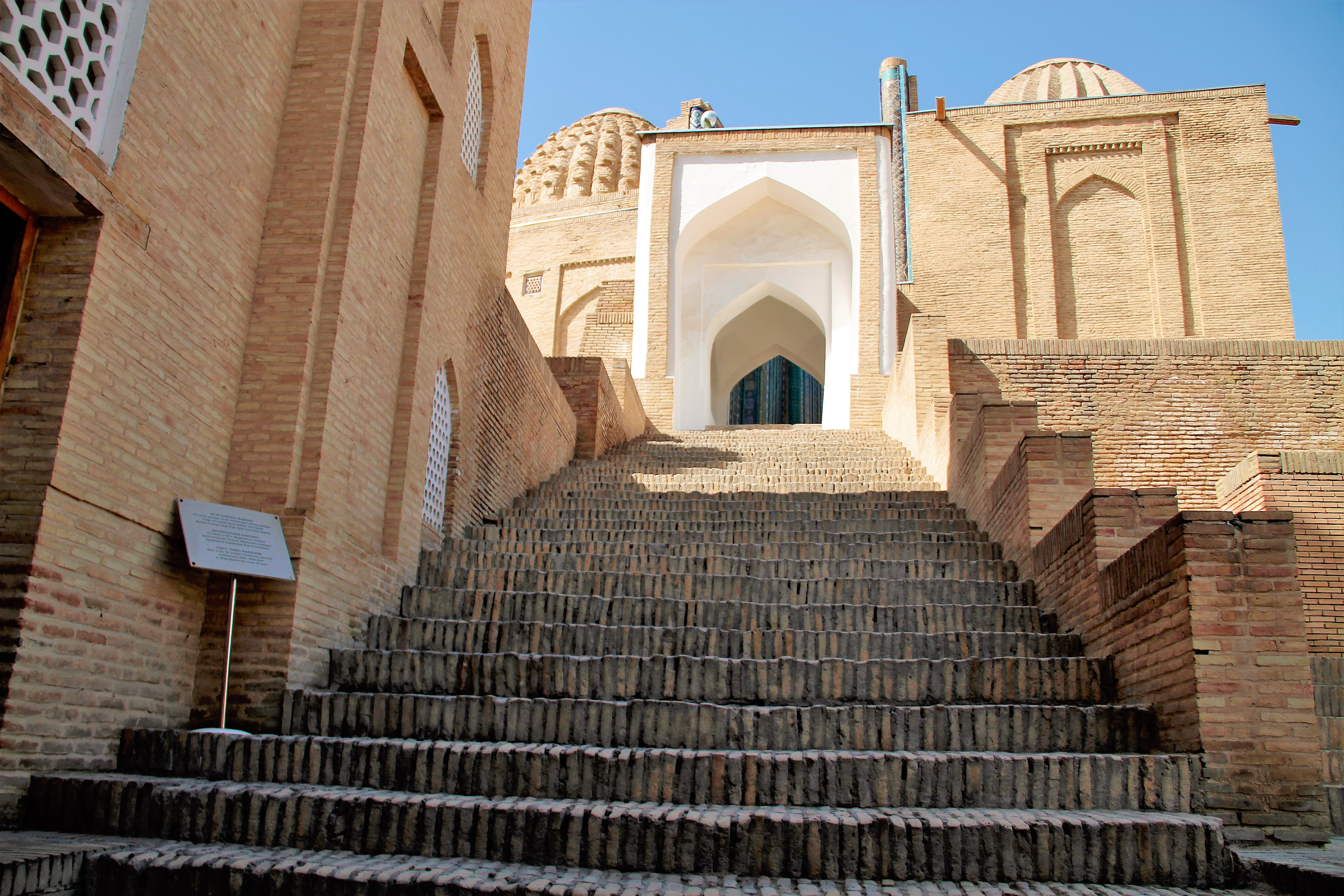 Islamic compex Shakhi Zinda